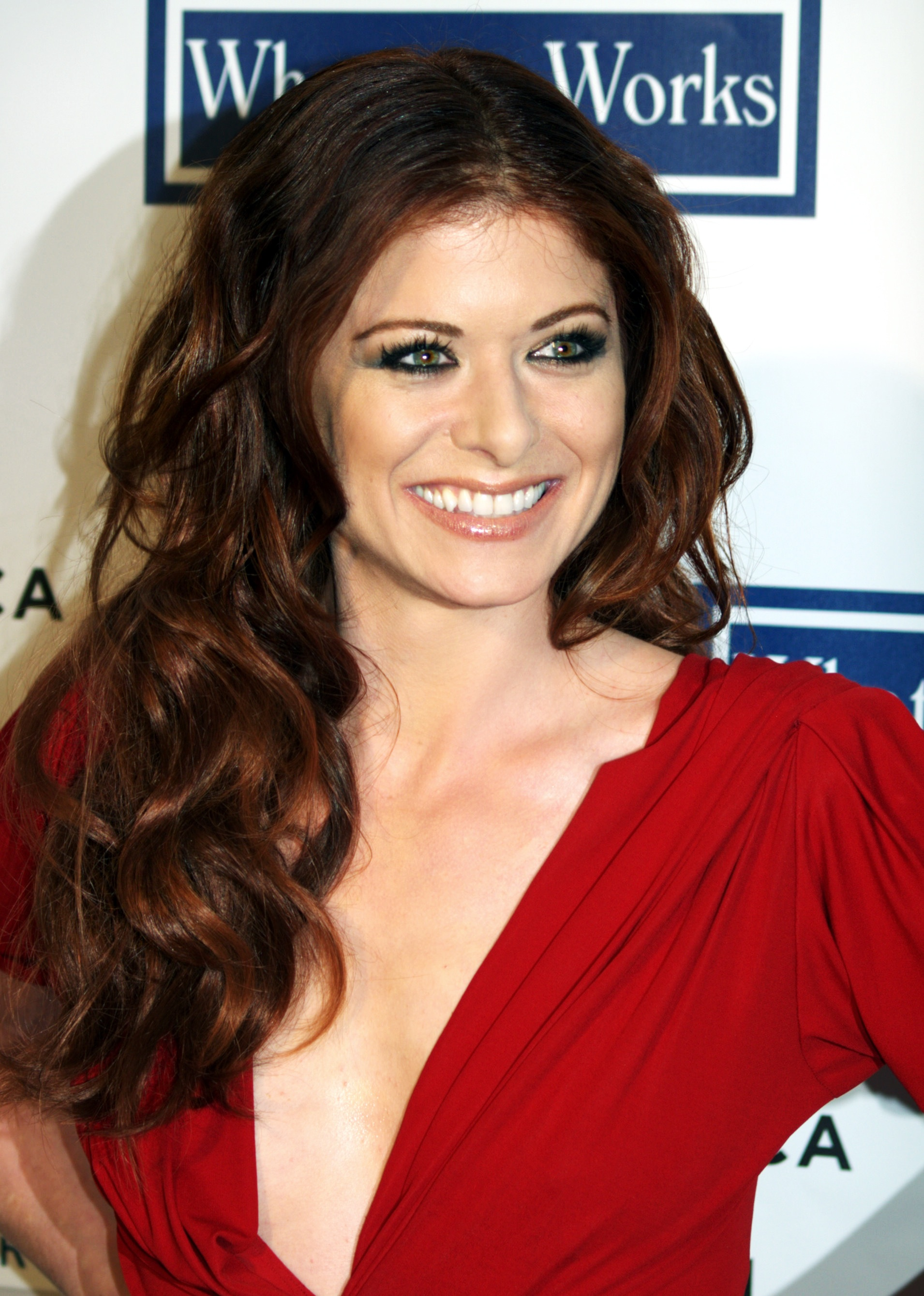 Debra Messing at the 2009 Tribeca Film Festival premiere of Woody Allen's Whatever Works.